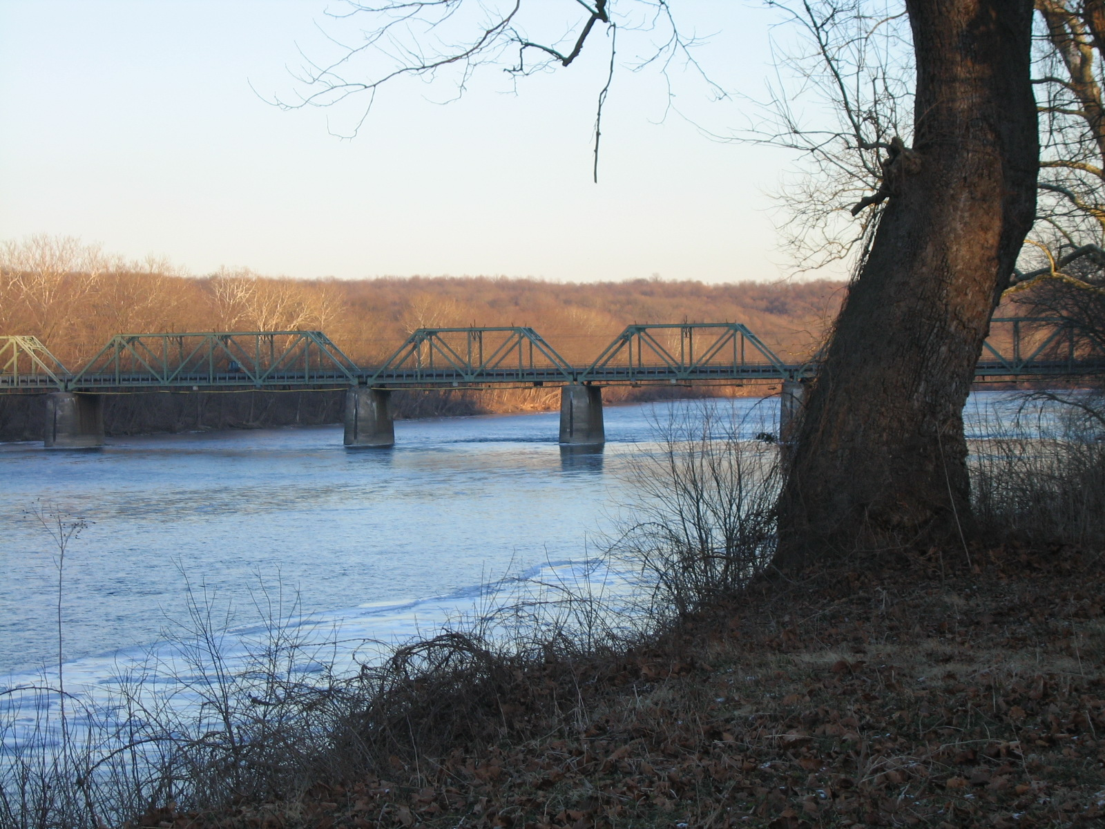 The Centre Bridge connecting Centre Bridge, Pa. and Stockton, NJ across the Delaware River. Original work of Daniel Schwager.